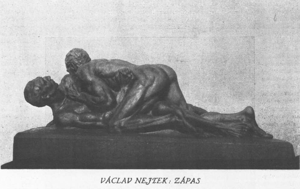 Photo of the sculpture Fighters by Václav Nejtek, 1921